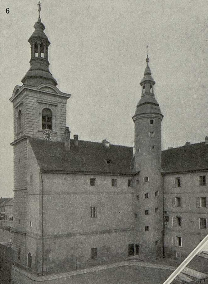 Old town hall of Mladá Boleslav.